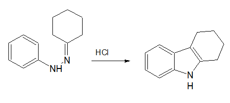 Borsche Dreschel